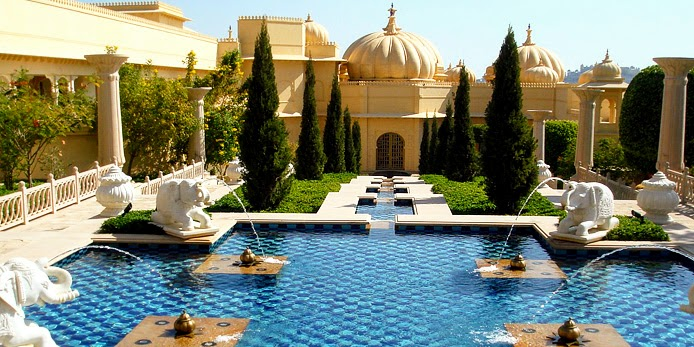 a old heritage hotel maintained by oberoi group of hotels